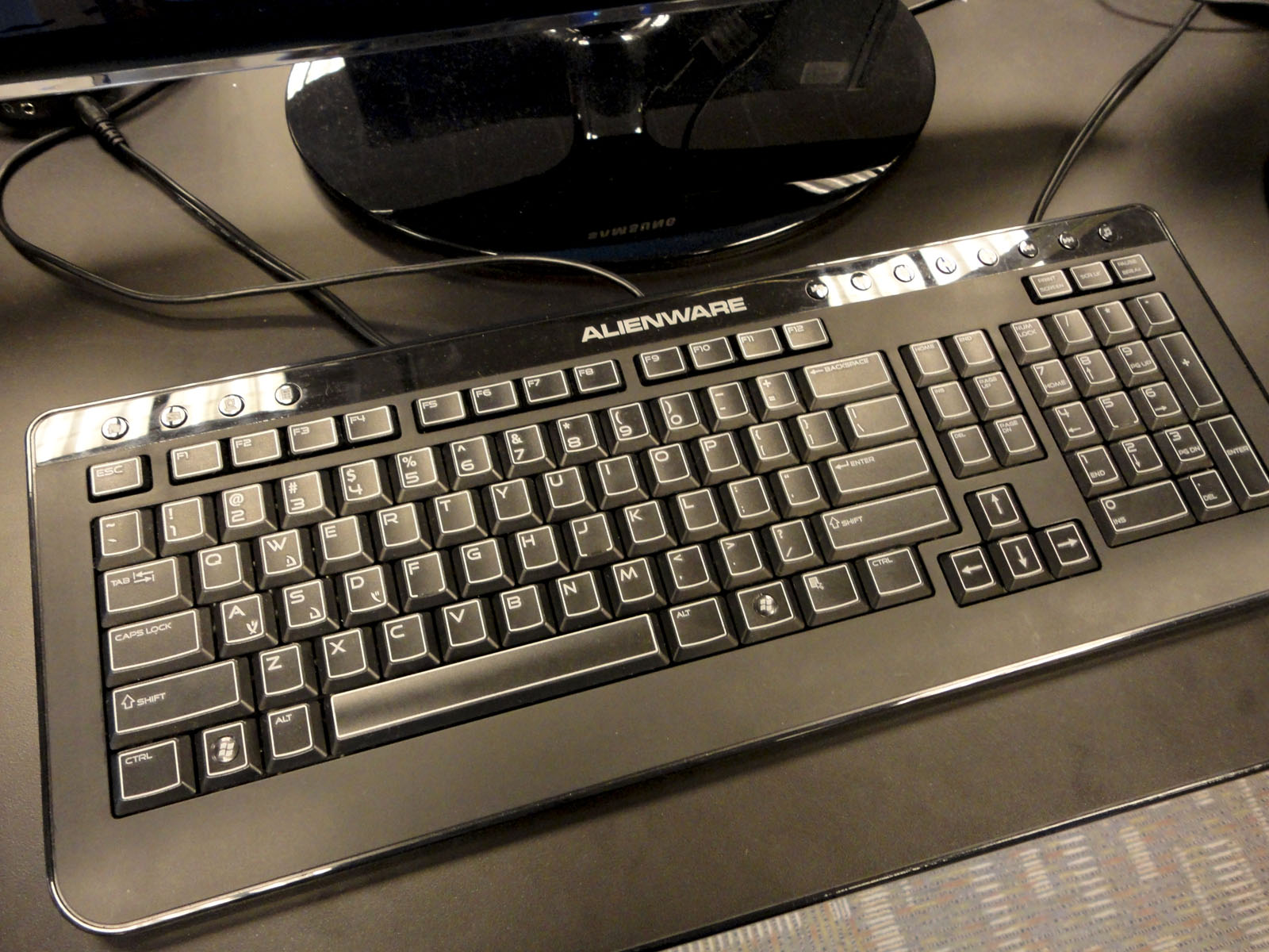 Keyboard manufactured by Dell Alienware.